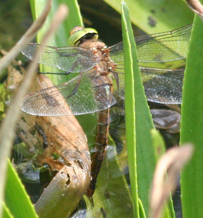 Norfolk Hawker Female oviposing